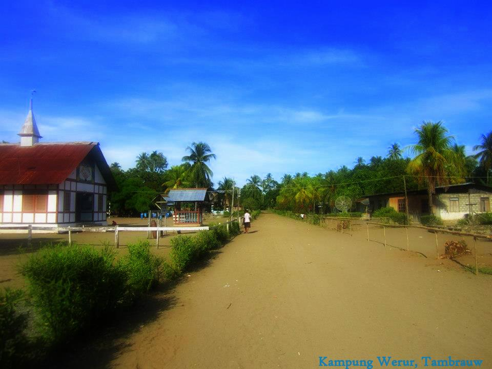 Werur Village, Tambrauw , West Papua, Indonesia